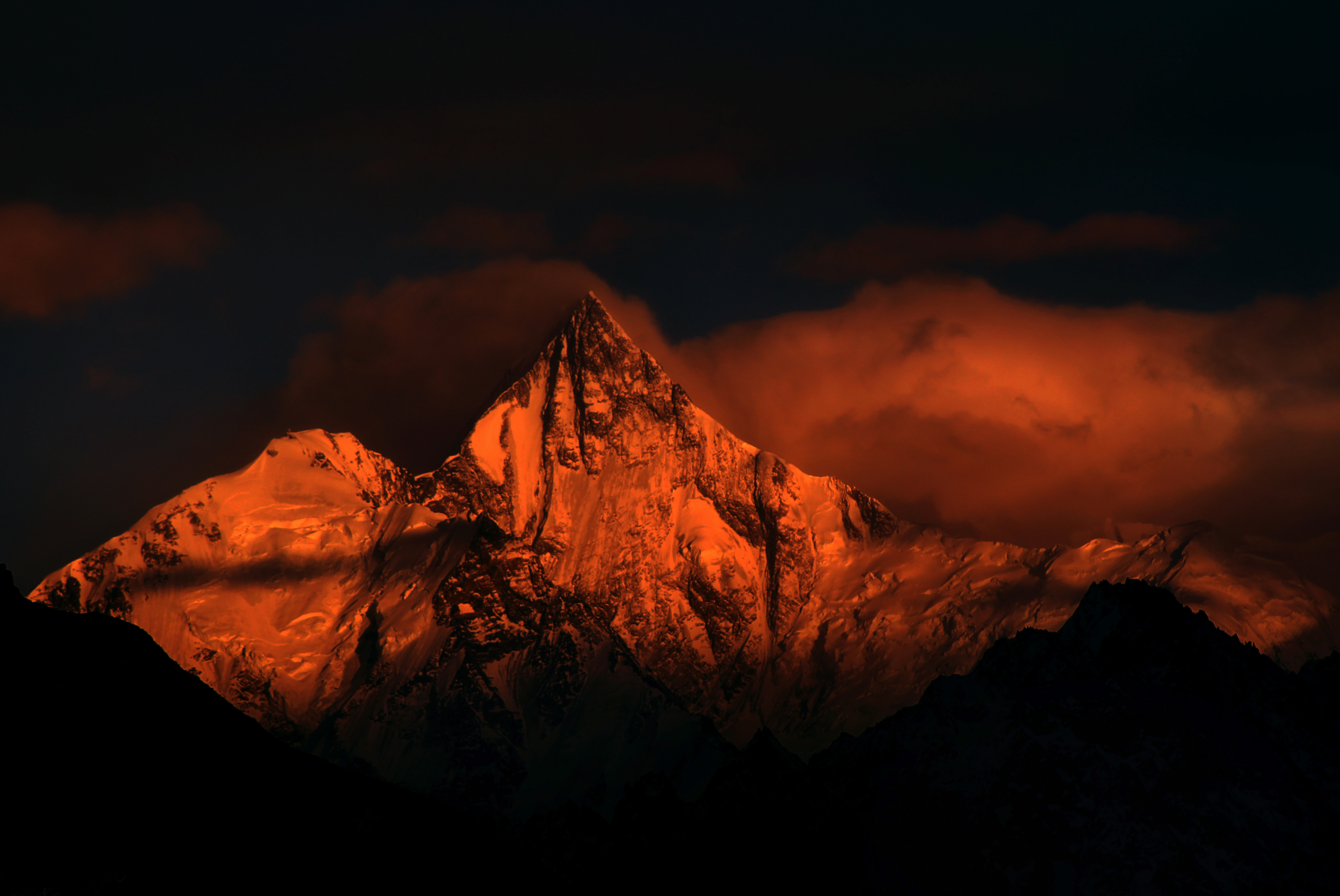 I shot this picture last year when I was returning from Ali Abad Hunza. I saw Beautiful light Over the Peak. I must Say the Last Breath